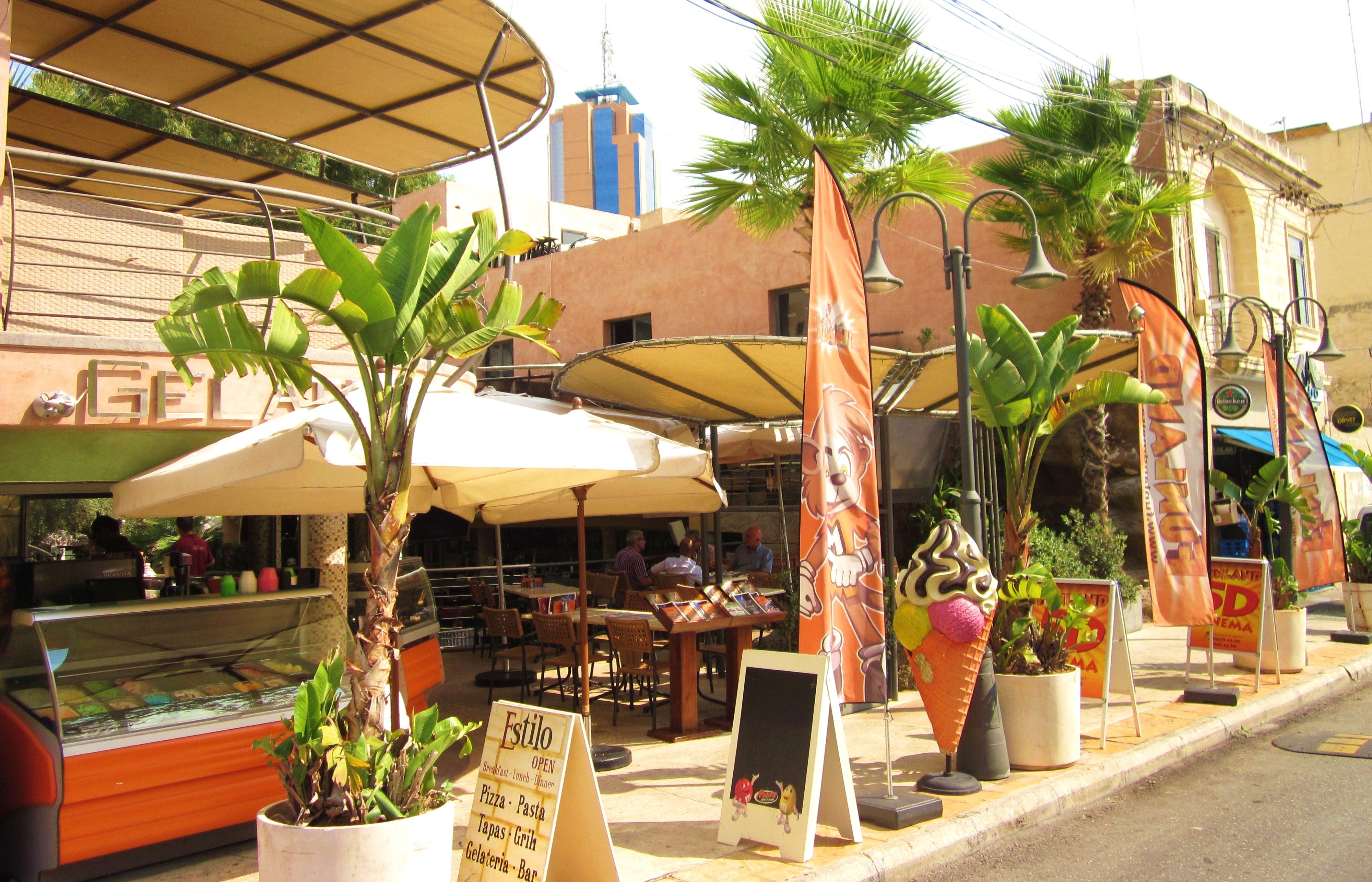 Malta's nightlife capital.